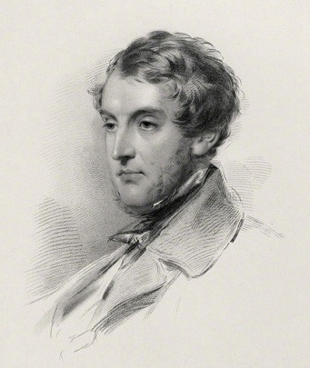 Charles Bowyer Adderley, 1st Baron Norton (1814-1905)